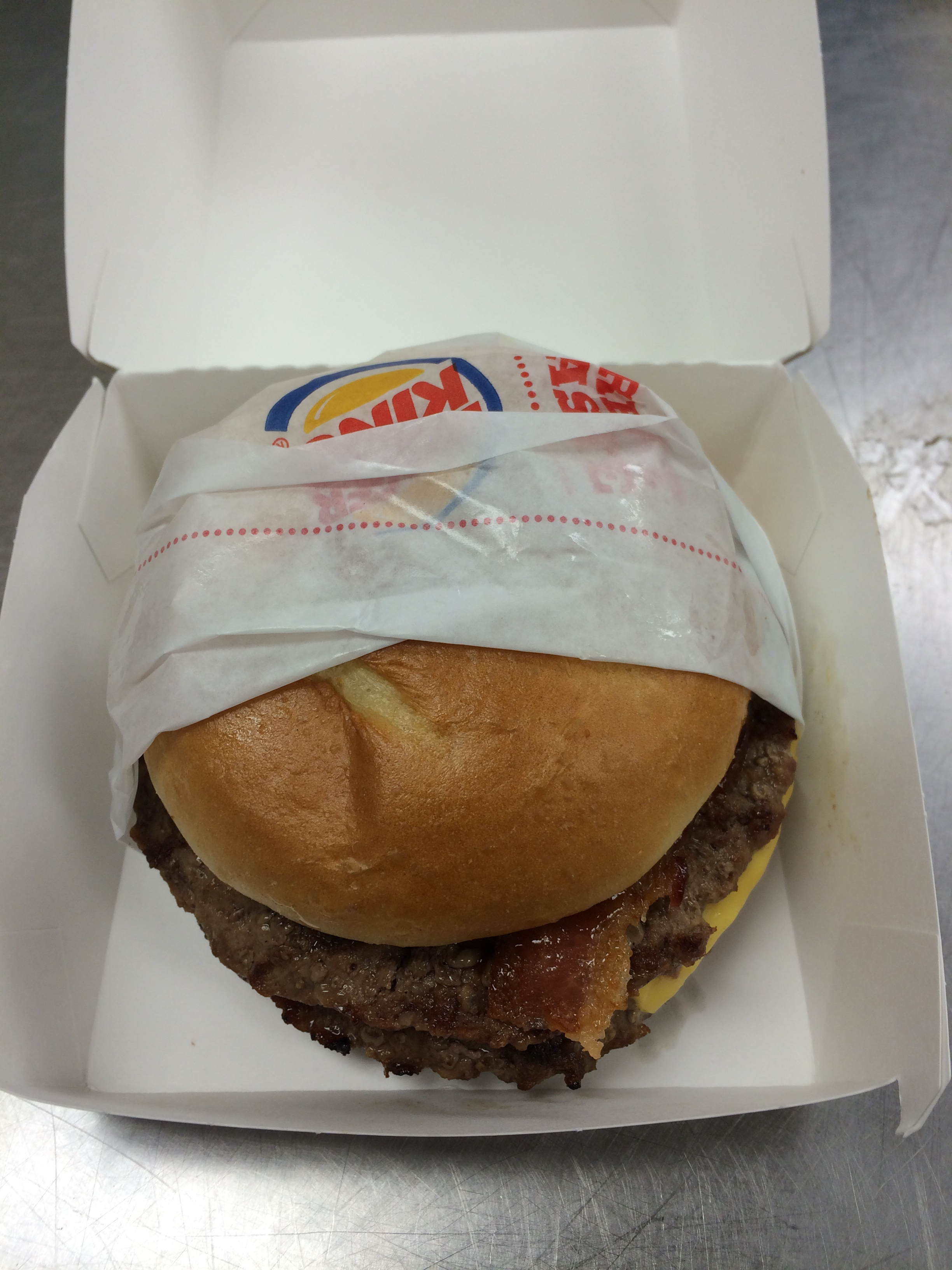 a Burger King A1 Ultimate Bacon Cheeseburger, the 2014 attempt at introducing a premium sandwich to the company's menu.